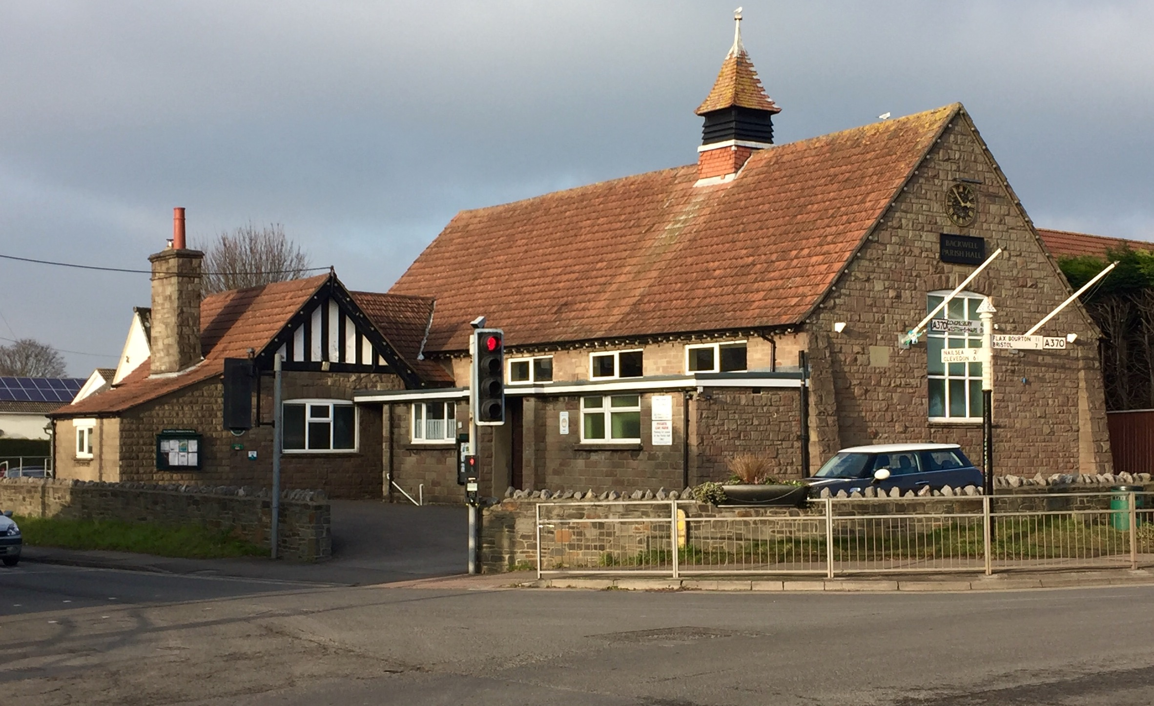 Backwell's Parish Hall, built in 1910, as viewed from the crossroads.